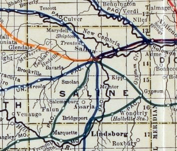 Stouffer's Railroad Map of Kansas, 1915-1918, Saline County.